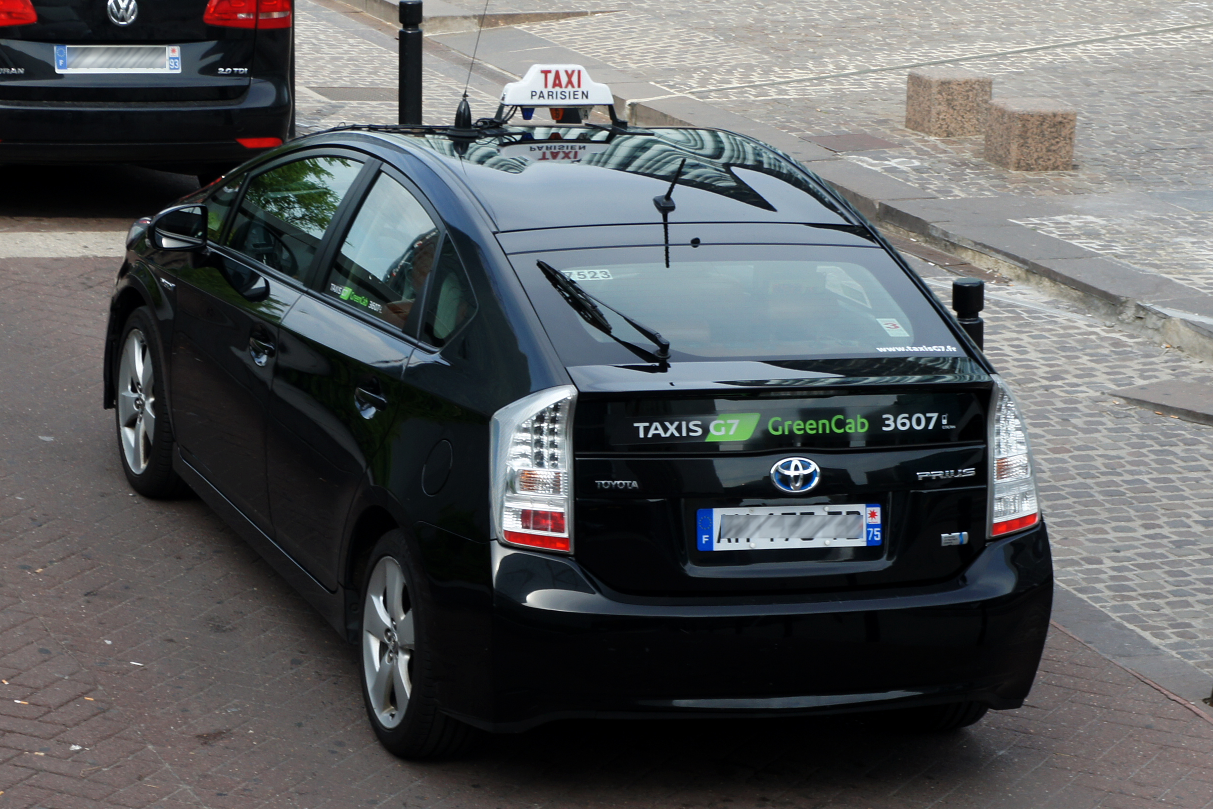 Hybrid taxi from G7 Green Cab program in La Défense, Paris